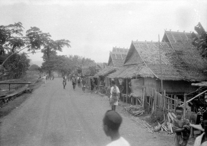 Street view near Marros